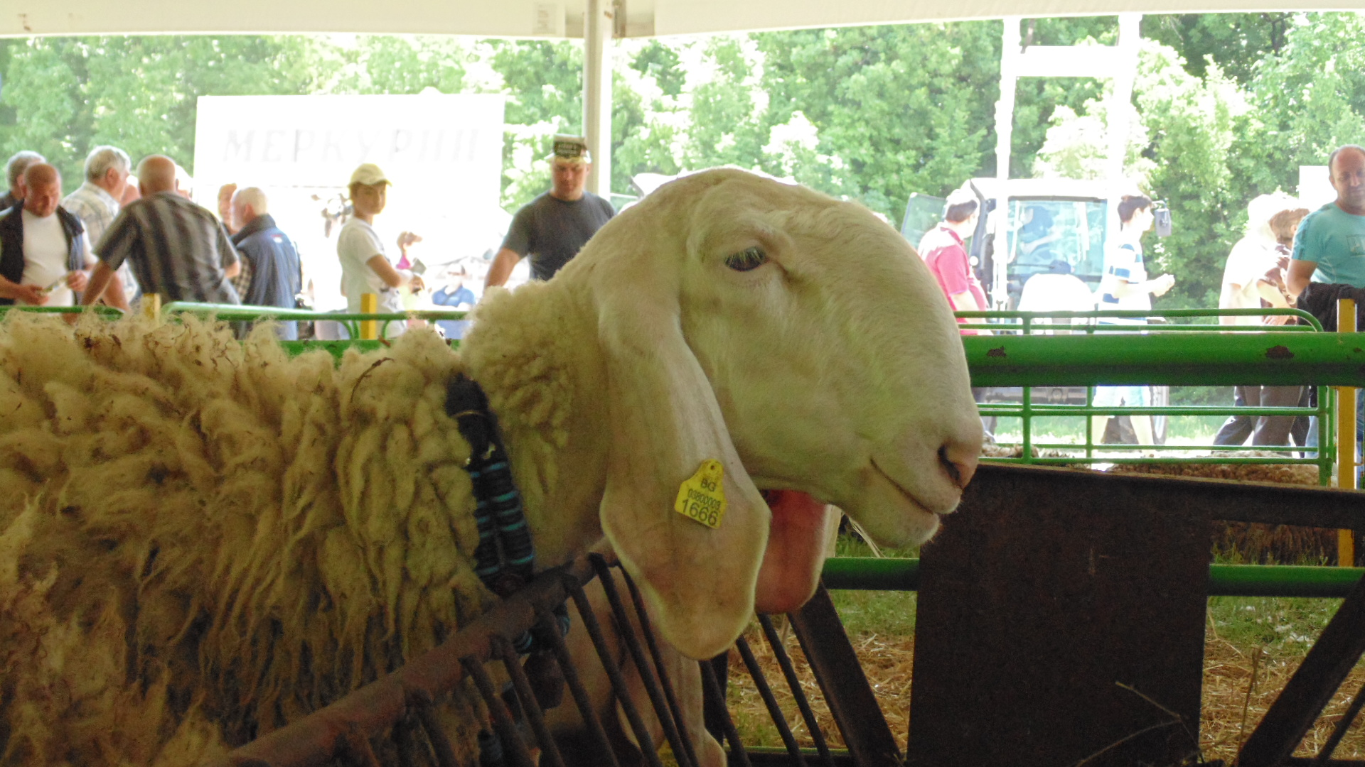 Stara Zagora Sheep